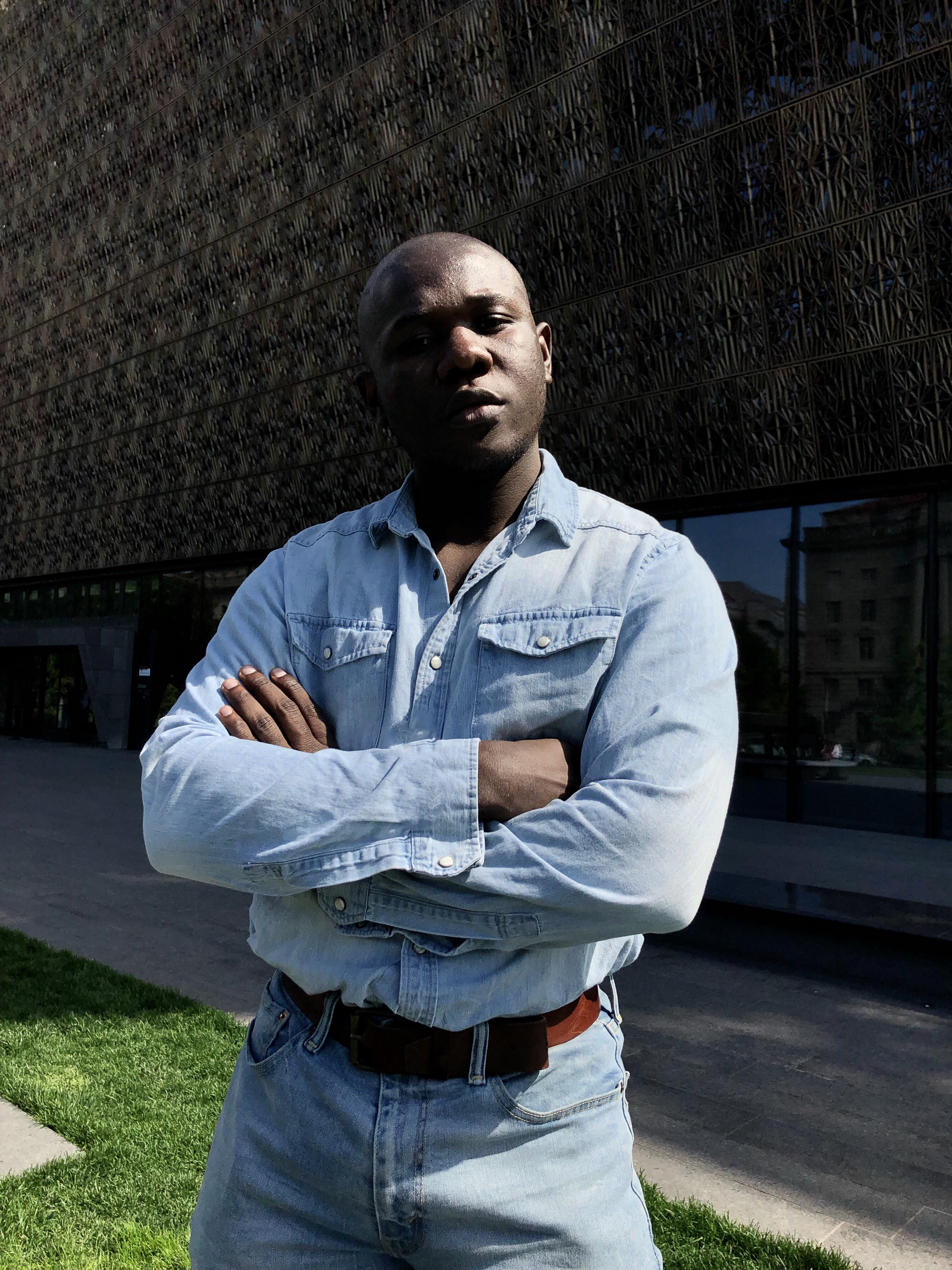 Richard Akuson at The National Museum of African American History and Culture in Washington D.C.